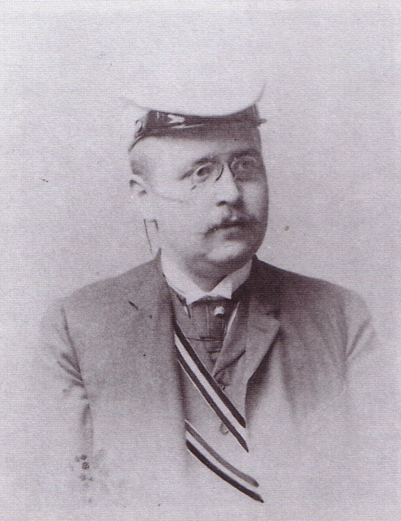 Porträtfotografie von Carl Vering (1871-1955)